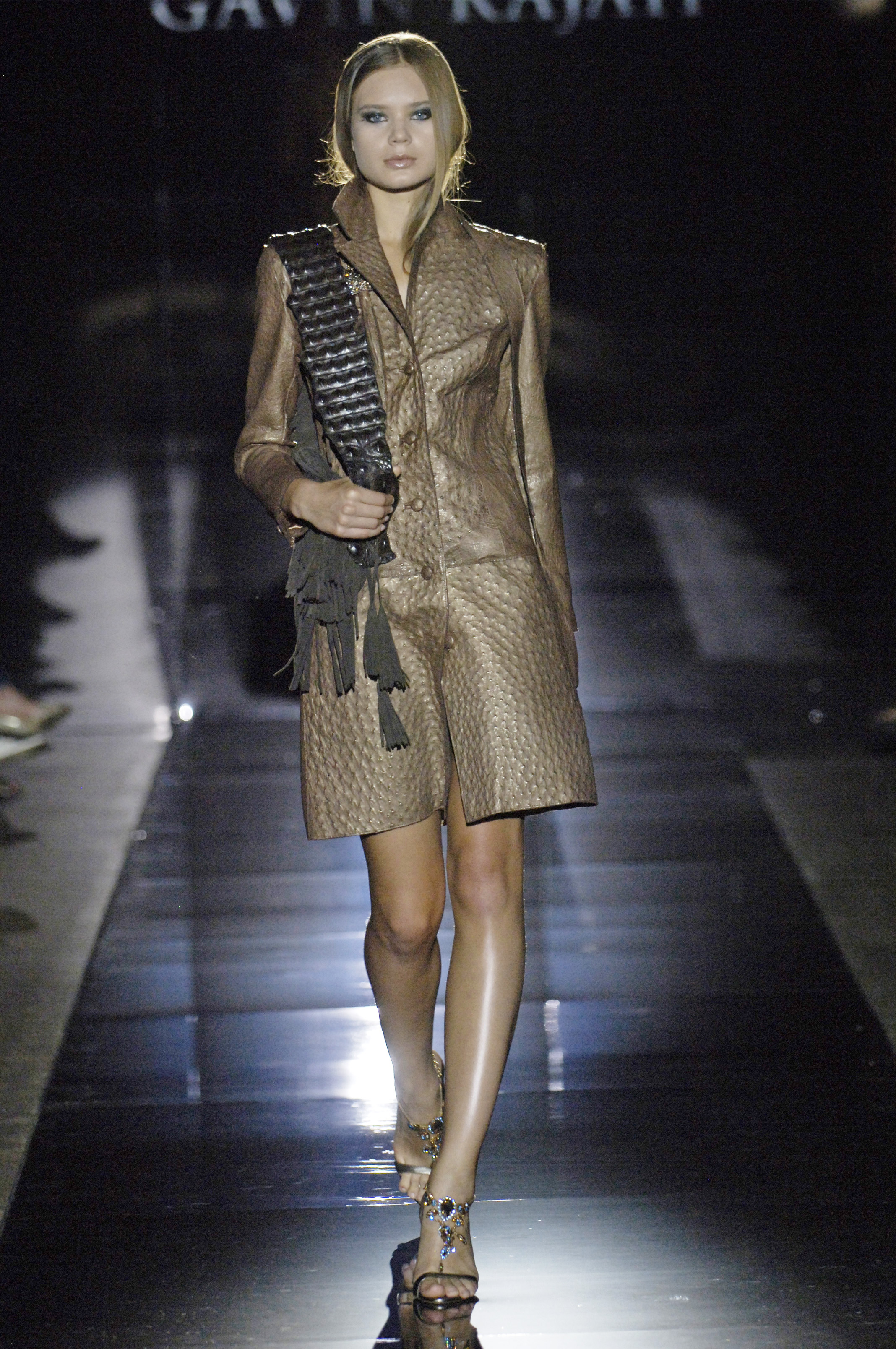 GAVIN RAJAH Haute couture Fall winter 2006/02 Paris July 2006